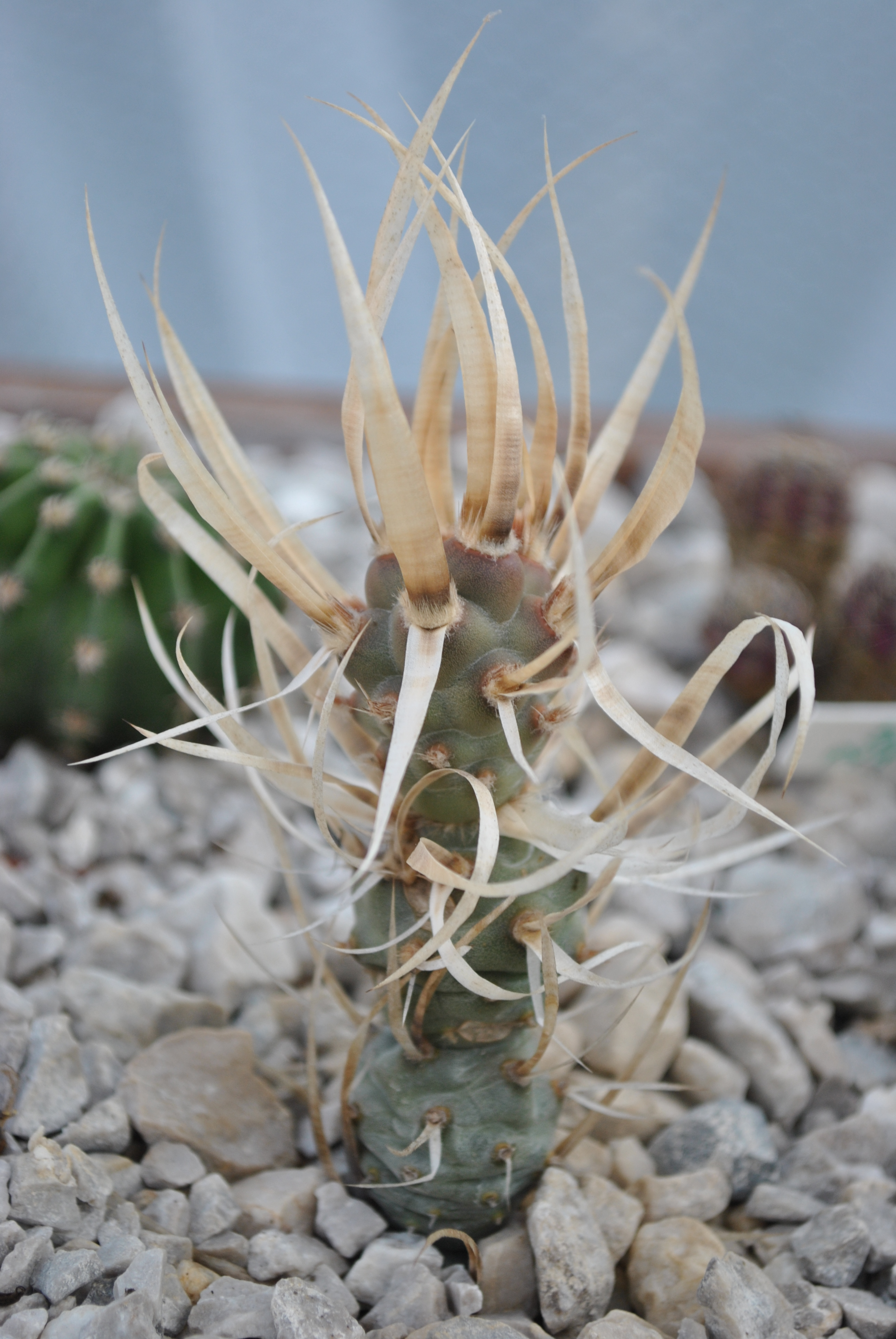 Tephrocactus articulatus var. papyracanthus is a species of cactus from genus Tephrocactus